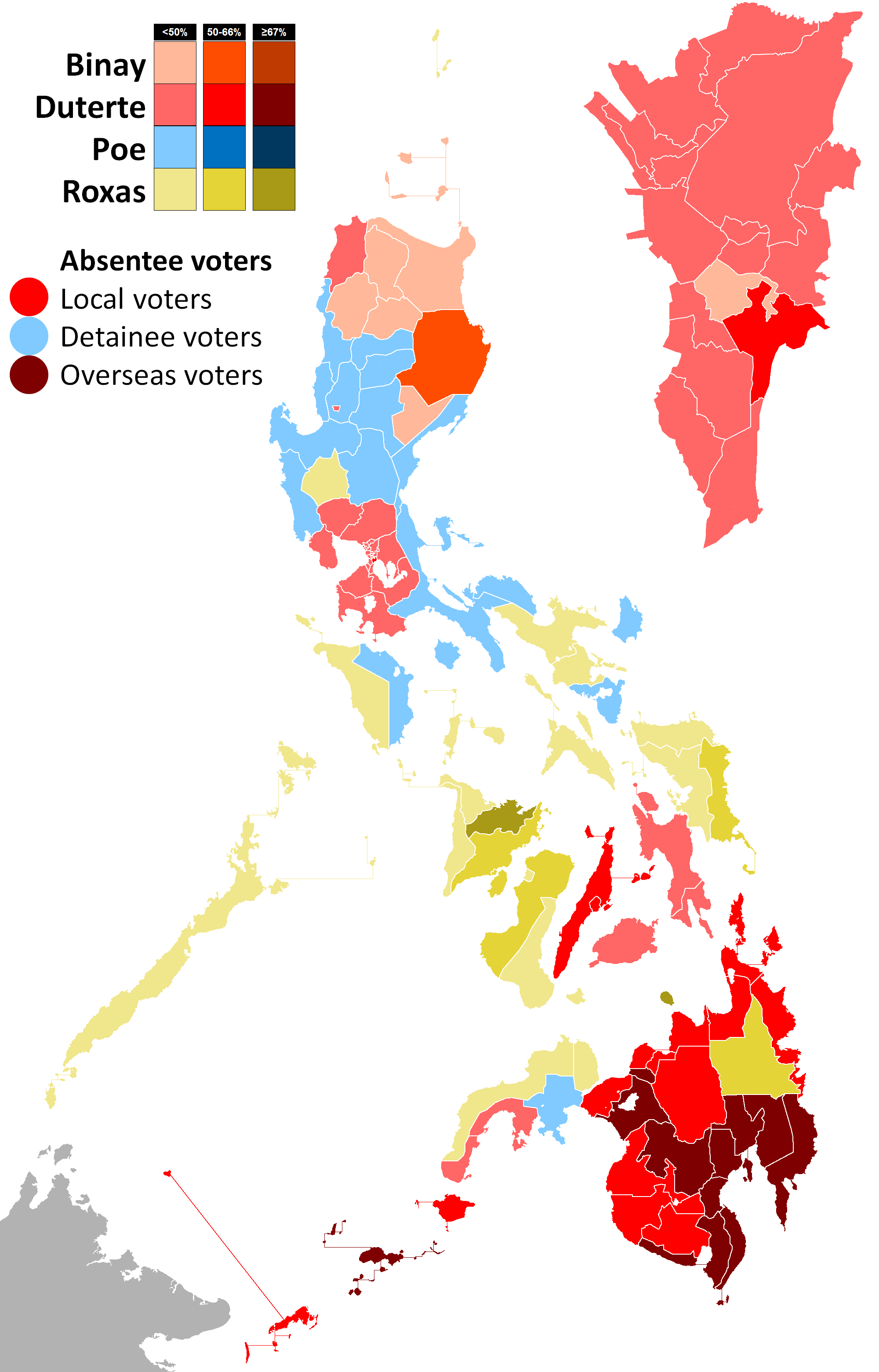 Result of the 2016 Philippine presidential election per province and city.